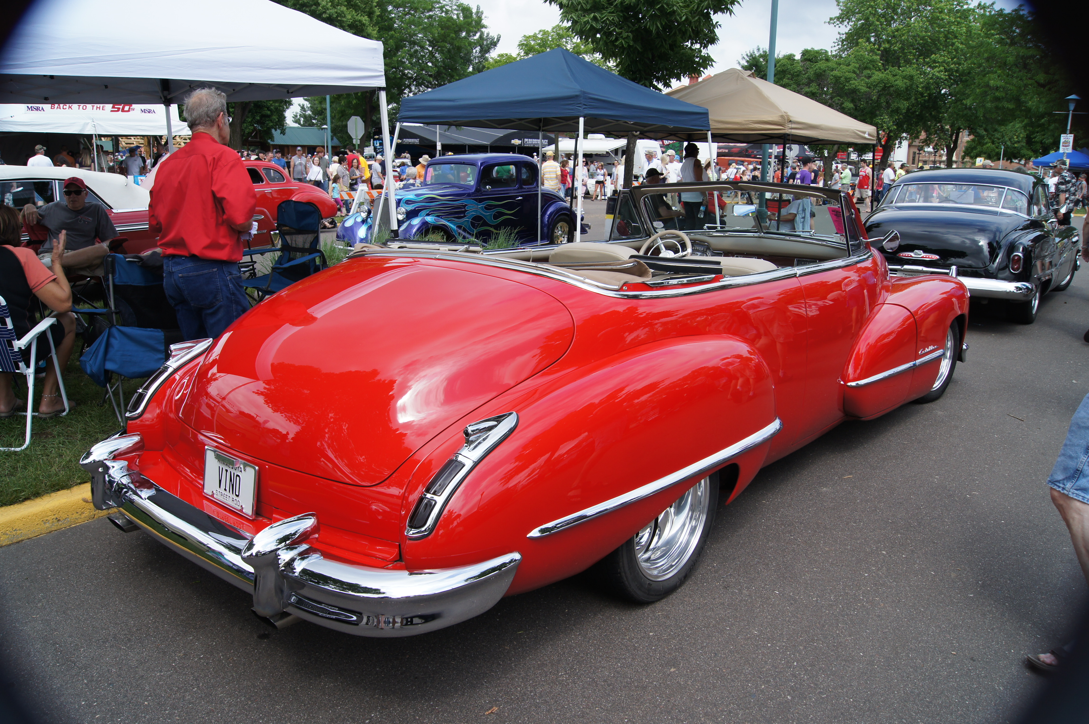 MSRA “BACK TO THE 50′s” 40th ANNIVERSARY June 21-23, 2013 State Fairgrounds St. Paul Minnesota More Car Pictures